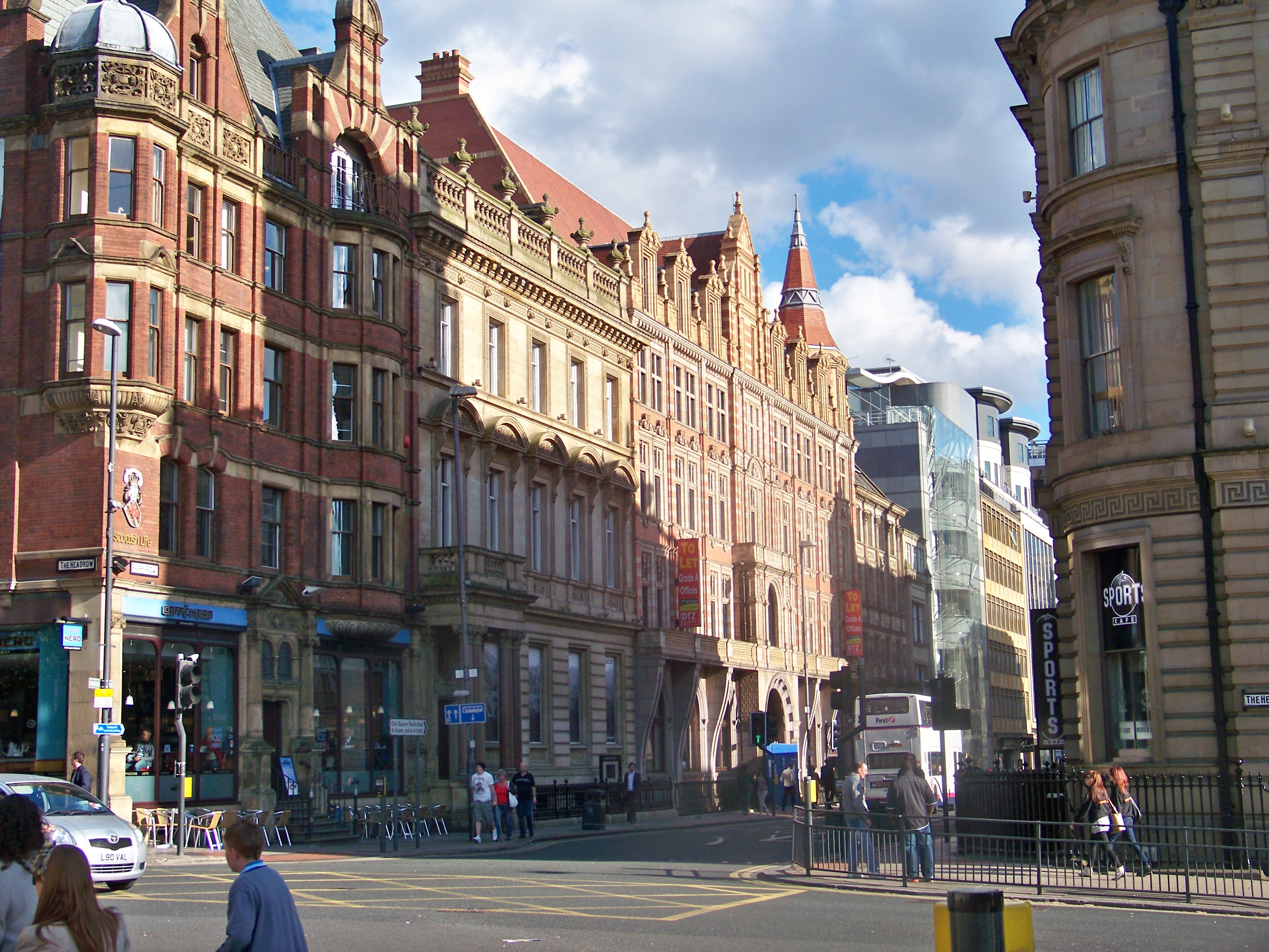 Park Row at its junction with The Headrow (taken from The Headrow) in Leeds, West Yorkshire. Taken on the evening of Thursday the 27th of May 2010.